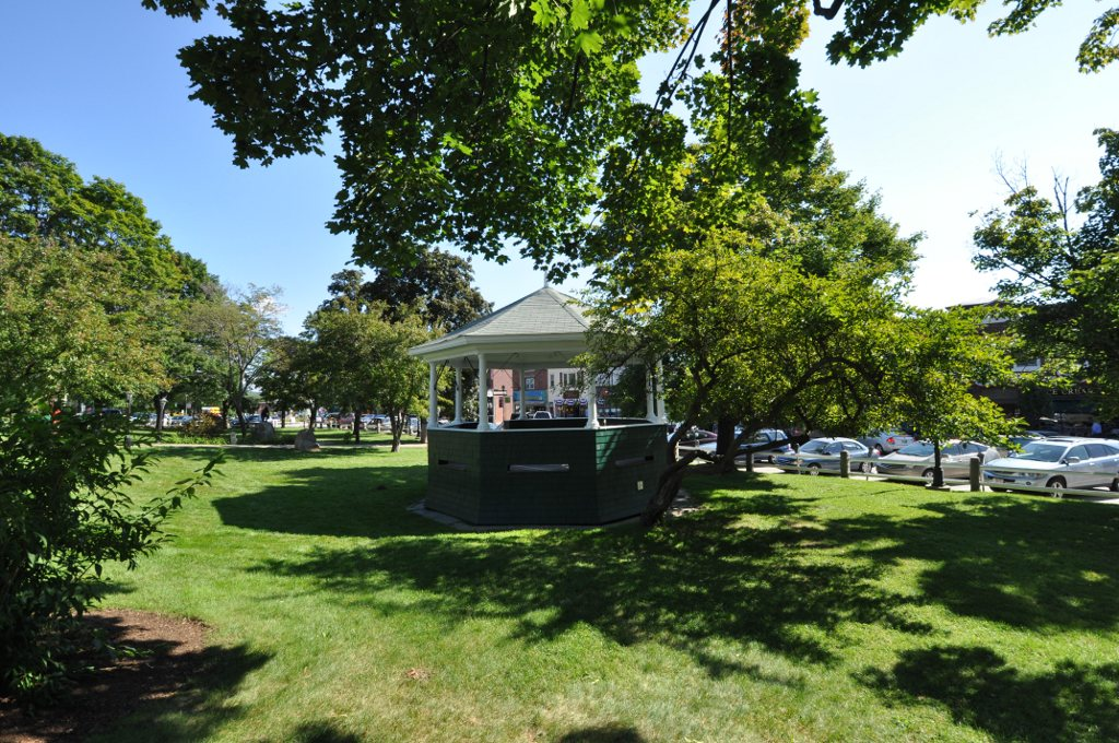 The center green in Plymouth, New Hampshire, part of the Plymouth Historic District.